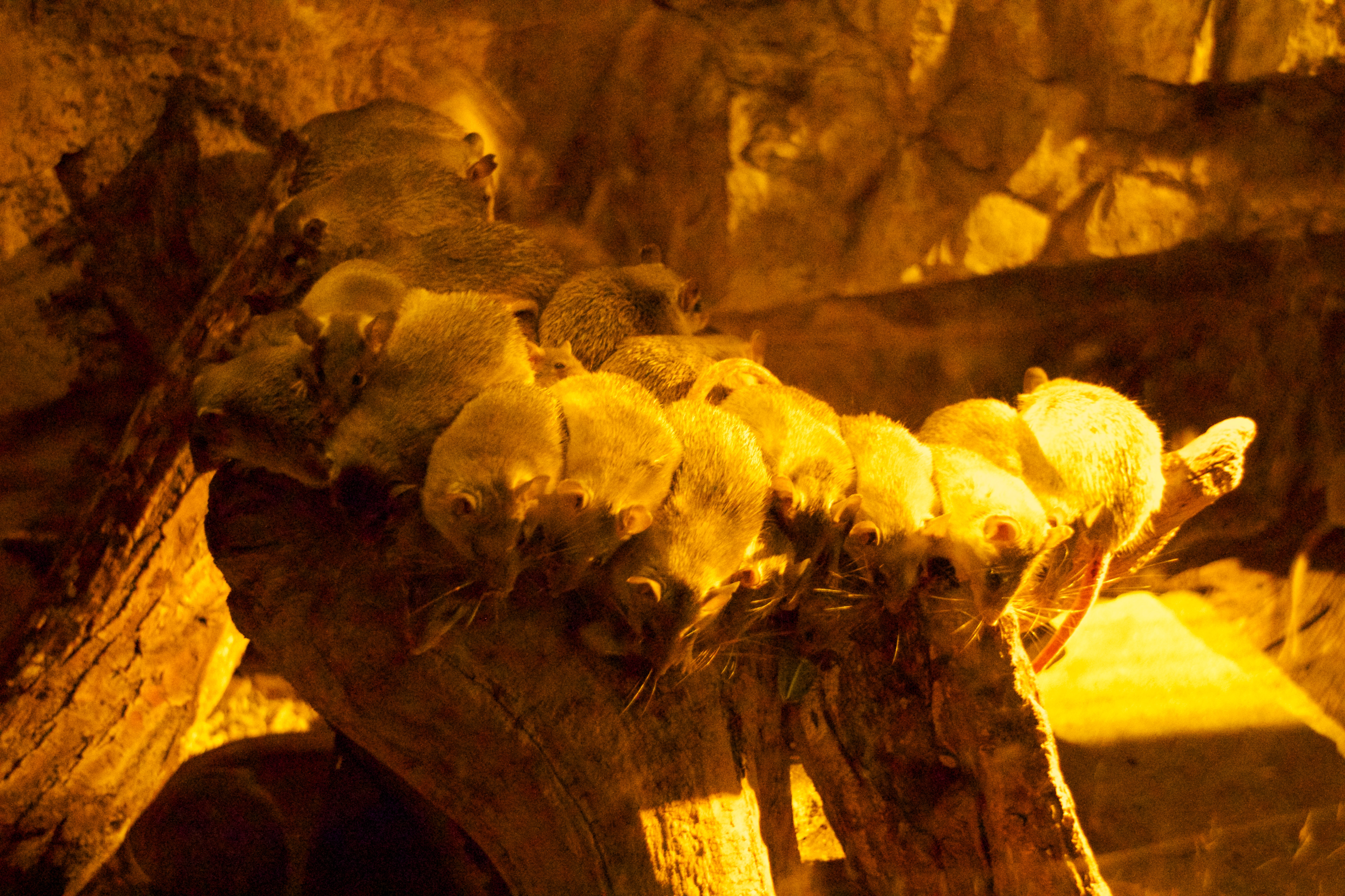 Turkish Spiny Mouse. Acomys cilicicus. At Chester Zoo.